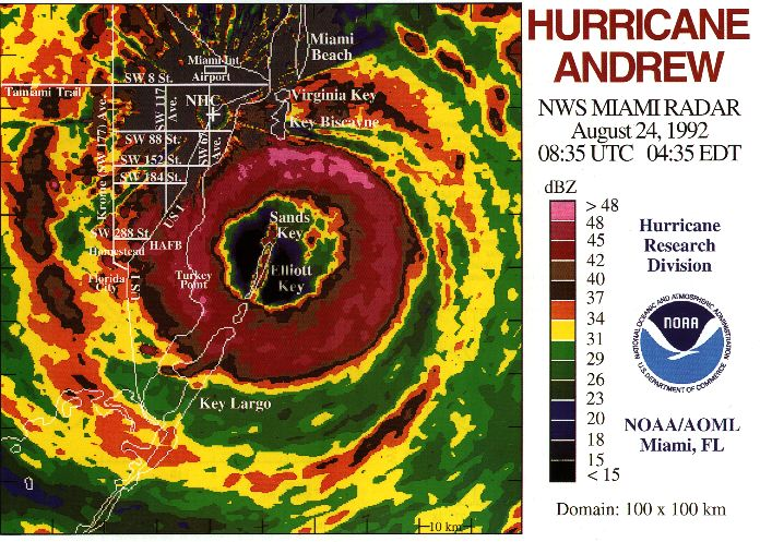 The last radar image taken from NHC before the WSR-57 radar was blown off the roof, 0835 UTC August 24, 1992 by Hurricane Andrew.